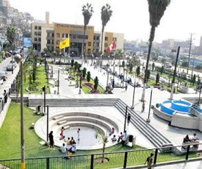 Plaza of arms of Ate Vitarte in Lima from Peru.